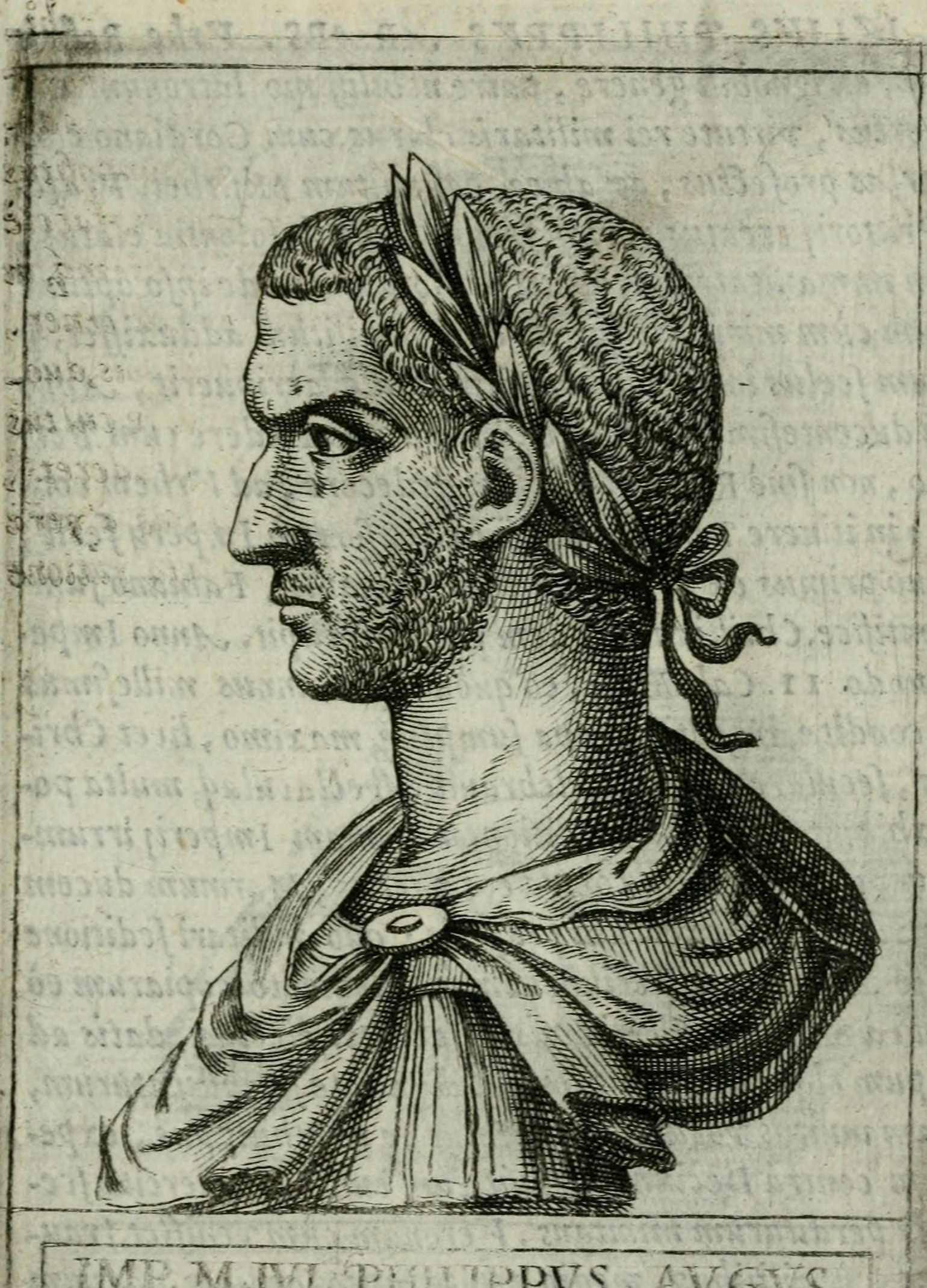 Title: Romanorvm imperatorvm effigies : elogijs ex diuersis scriptoribus per Thomam Treteru S. Mariae Transtyberim canonicum collectis Year: 1583 (1580s) Authors: Cavalieri, Giovanni Battista, ca. 1525-1601 Treter, Tomasz, 1547-1610 Subjects: Emperors Publisher: Romae : Apud Vincentium Accoltum Text Appearing Before Image: collegam.afsimptus eH.^do-lejcens adeò ad feueritatem triH\tiam% natura ccmpofitustradìtur ,yt à quinto atatisanno, nulli: cuìufquam facetediclisatlisuèy adridendum prcuocaripotHerit ; patrtmfy inludis fecularibus petulantius cachinanttm , adhuc tener,yultu auerfo afpexifìe notatus fit. Roma a Trmonaràs.duo^decimo Ataùs anno occifuseft, opera Decij, qui vt fé cultusDeorum fuorum obfemantiffimum Ronanis cjìehderet ,Cbrifìianumhunc principem^ hocexemplo tnultos areràReligione ampUSenda Aetmcndo 7fenndum nulla radon*fatanti. M. IVLIVS PHILIPPVS S8 Text Appearing After Image: PV5 XX XVVA. Af. WUV5 TB1LIVPFS ^R ortns, vinate rei militari* eUrmxum Gordiano con»tra Pirfas profetiti*, & ab co, pojhbitum Mifithei, Vrkfé»Hm Tratorij creattis^rerum fecundarum frifolentia elatus,ad eam ìmmanitatem deuenit, vt Cordlavim de ipfo optimimeritum cùm miri* artibux in odìum miUturrì adduxiffct, *fummum fcelm Interfecerit, \mpcrììtìn% arripuerit, .AnnoCbrifli due ente fimo quadragesimo fiepnmo.F mere cttm Ter-fis mito , non fine Rimani mftnnis dedecore, ad Vrhem con-tenditeli itinere Vhitrippum fiìium confortóm ln.perv\fecit,cum quo primus ex ImfemtoribmRomanci Fabianojam-ino VonnjiceXhrifiìanamfdem prefiterì cdpit. ^Anno Impe-ri) fecur do 11. Cai. Mai), coqnòd efiìet mnm millefmus-Vrbu condite,ingenti pompafiumptu^maximo,licet Chri-fiiaìiKf,feculare$, ludos celebrami, fr e eiacularmi hit a po-fulo exhibint. Scythhìn ditionem Romani Imperi) irrum*fentibws, exped